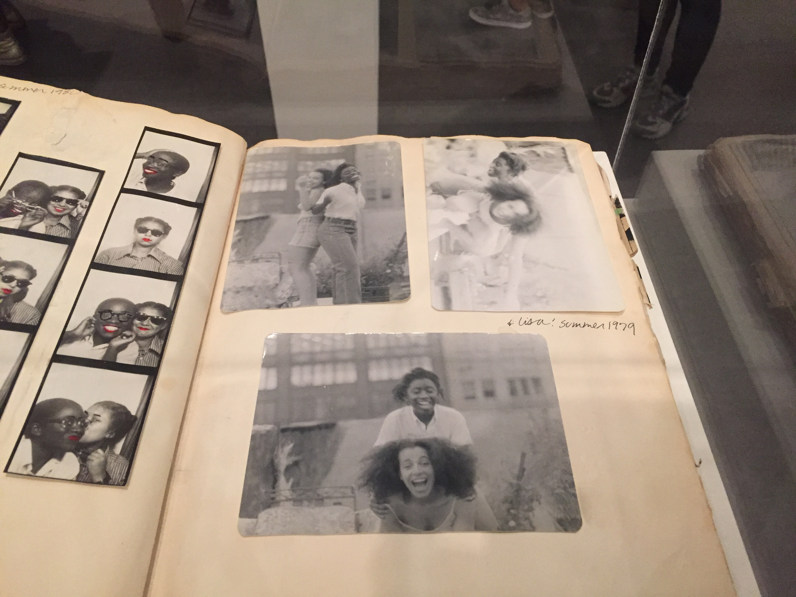 Photo of Rogers and friend in Alva Rogers archived journal at Brooklyn Museum as part of the exhibition, We Wanted a Revolution: Black Radical Women, 1965–85.